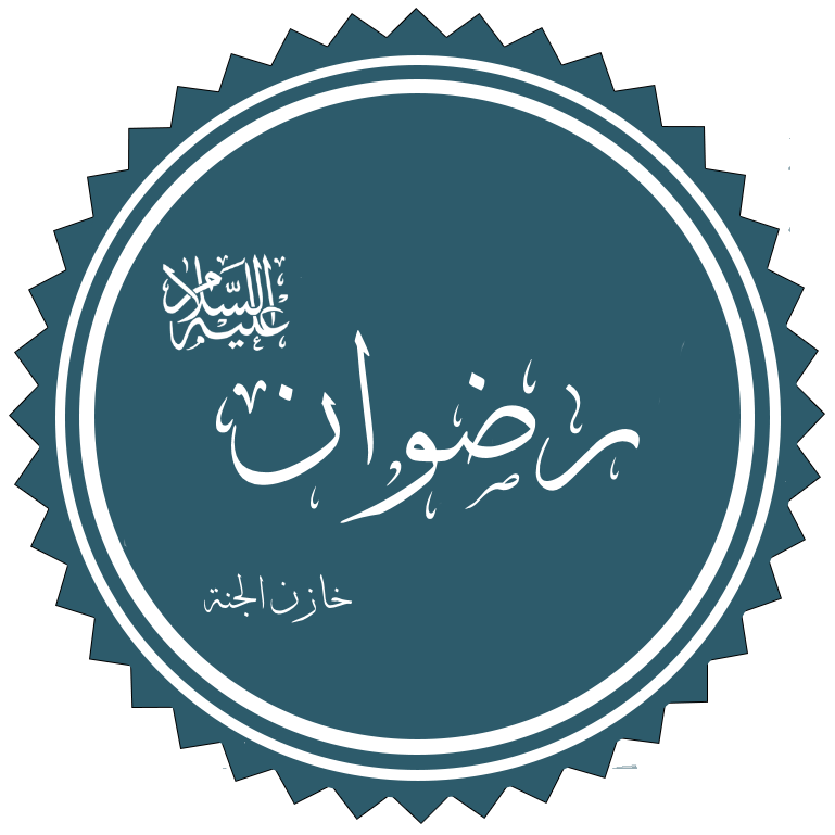 Riḍwan calligraphy